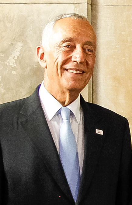 Acting President of Brazil Michel Temer, Brazilian Minister of Foreign Relations José Serra, Governor Pezão, and Rio de Janeiro Mayor Eduardo Paes, receive the Portuguese President, Marcelo Rebelo de Sousa.